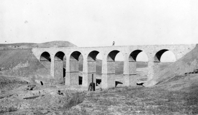 AWM caption : Ottoman Empire: Palestine. A soldier standing on the railway bridge east of Tel el Sheria over Wady El Sheria which had been destroyed by the Turkish army and rebuilt by members of the Royal Engineers. Anti malarial operations were also conducted in this wady by 116 Sanitation Section.